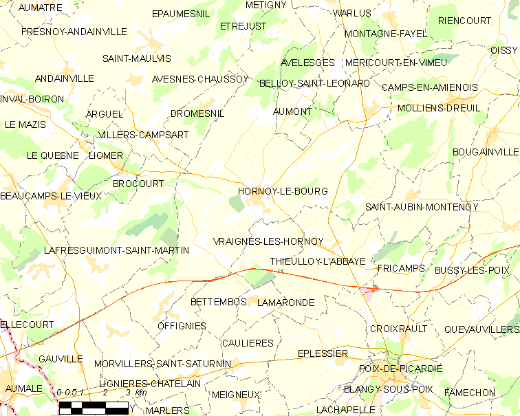 Map of French municipality Hornoy-le-Bourg